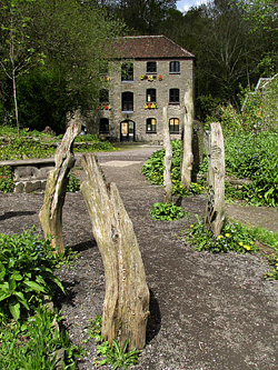 Willsbridge Mill, Bristol.